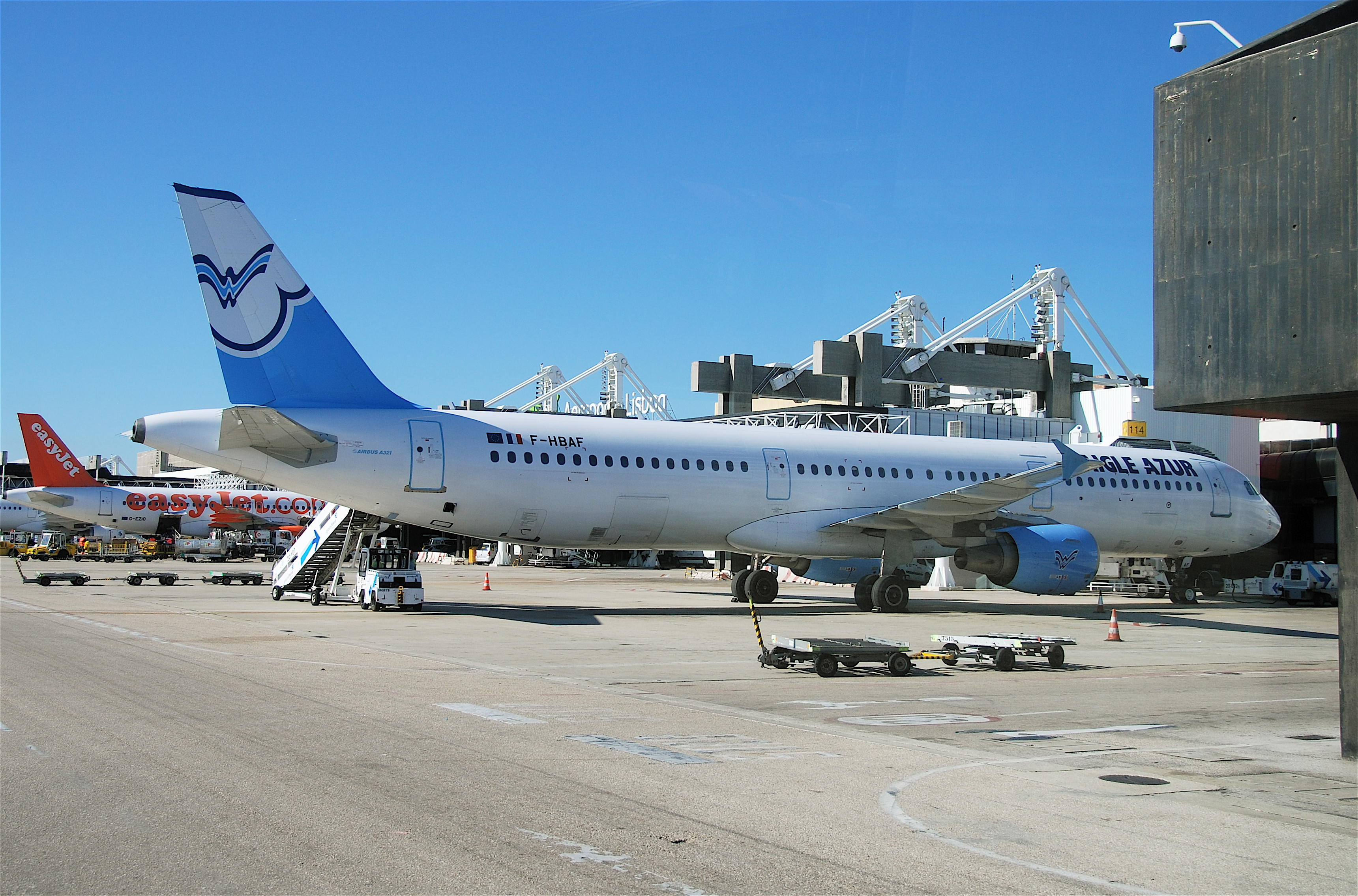 First flight: April 23, 1999...(c/n 1006) 30/04/1999 Air 2000 G-OOAI 07/10/2003 First Choice Airways G-OOAI 06/05/2004 Volar Airlines EC-IXY 26/06/2005 LTE EC-IXY 08/12/2005 Aigle Azur F-HBAF